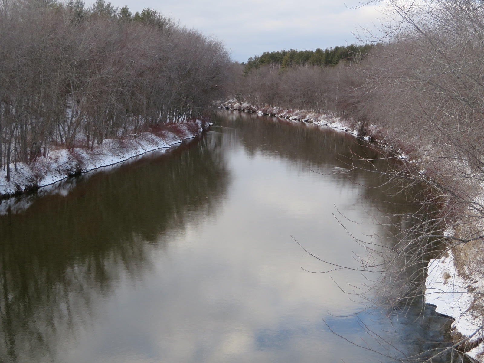 The Baker River in Plymouth, January 2016